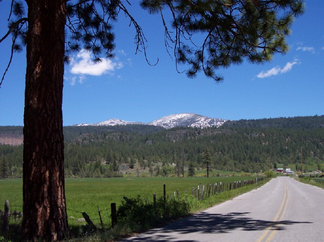 "A large pine tree frames to view across Jess Valley to the Warner Mountains and the South Warner Wilderness"